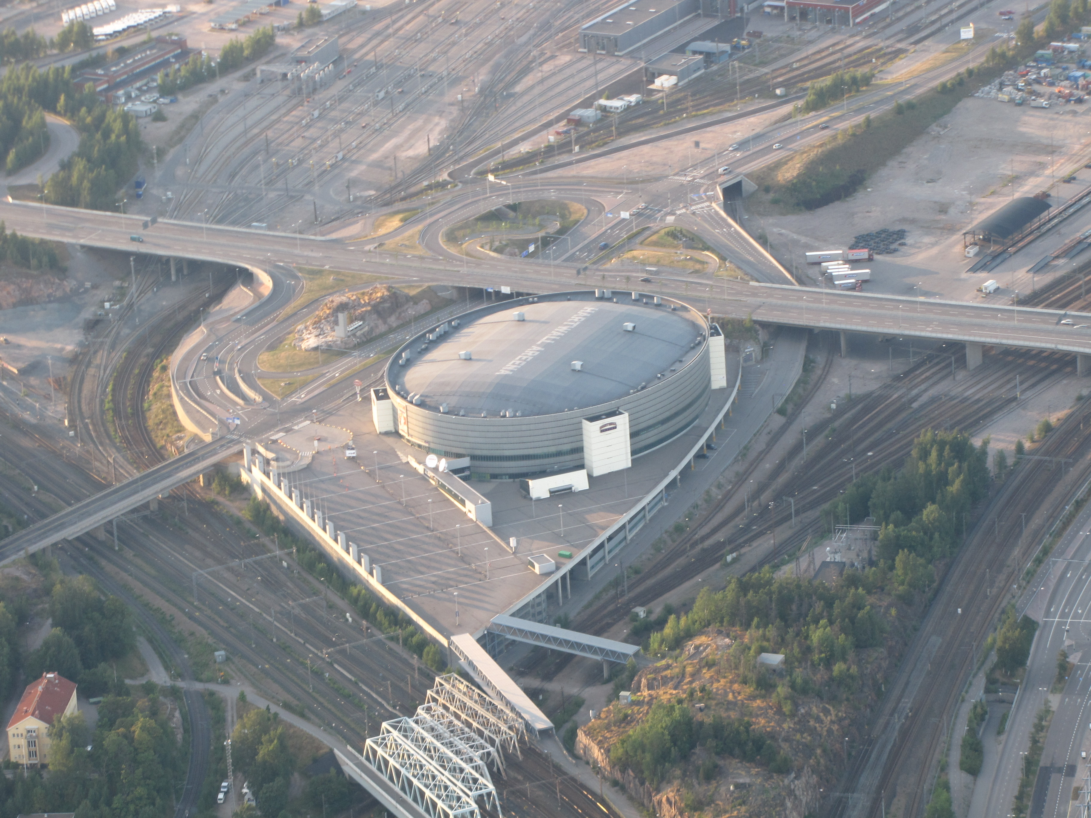 Harwall Arena photographed from a hot air balloon.